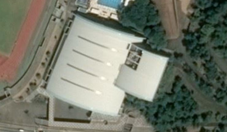 Wink Gymnasium